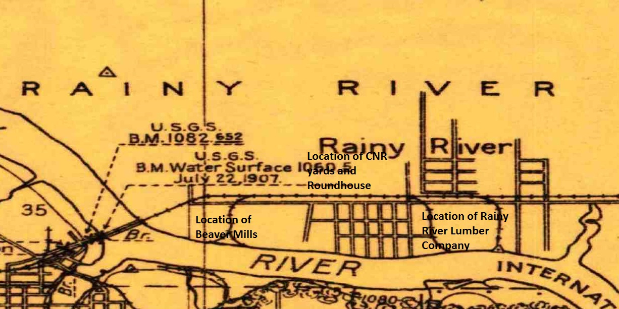 In this map I added notes to show the locations of the 2 big mills and the CNR yards and Roundhouse